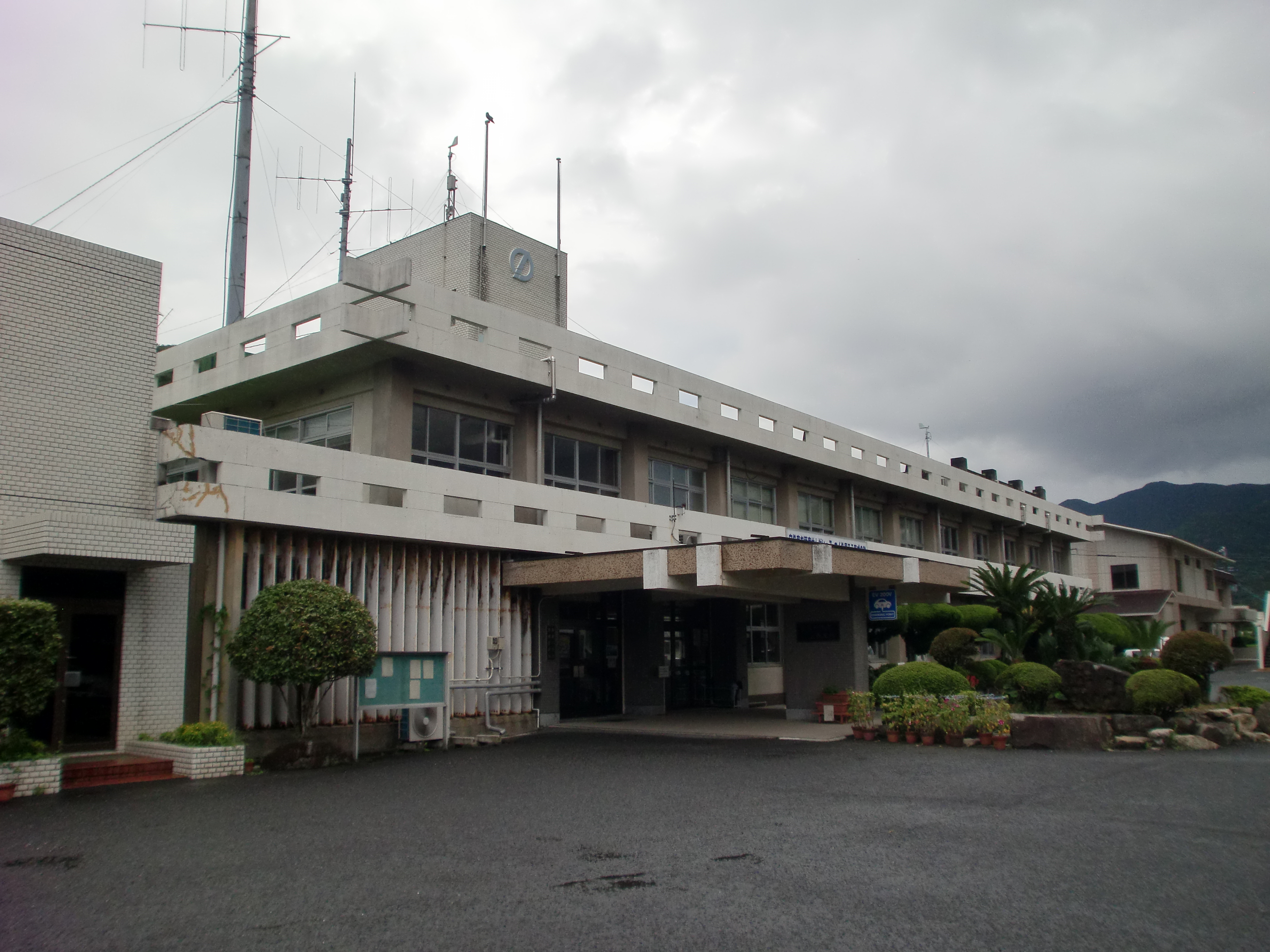 Satsumasenda City Hall Kamikoshiki branch at Kami-koshiki Islands.